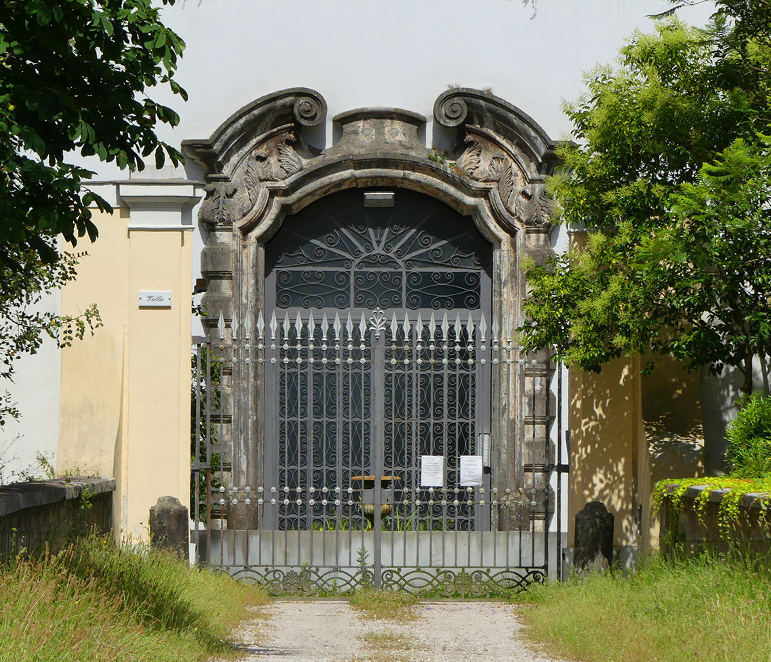 Portal of Villa Paterno - Faggella, Naples